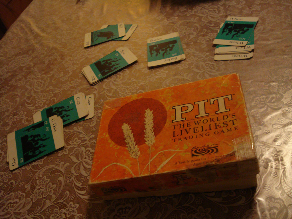 The box and cards for Pit.